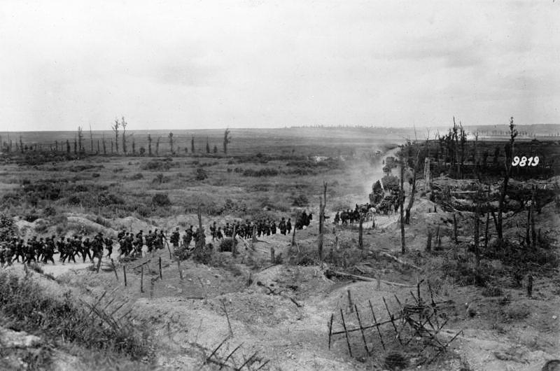 Information added by Wikimedia users.